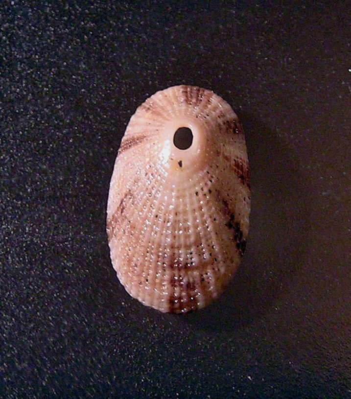 Diodora crucifera, a keyhole limpet from the family Fissurellidae